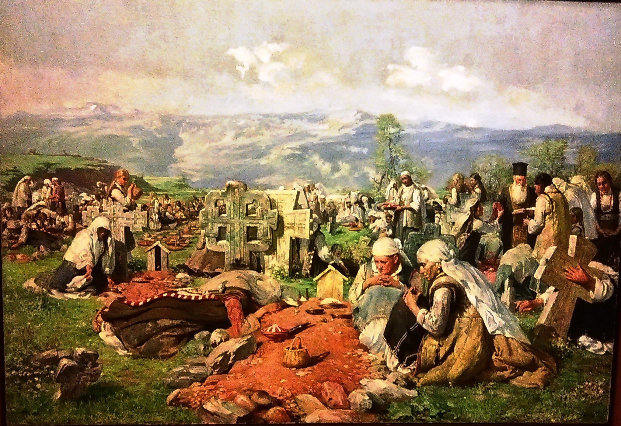 A snapshot of Ivan Mrkvička 1899 painting "Zaduszki", taken at National Art Gallery in 2016